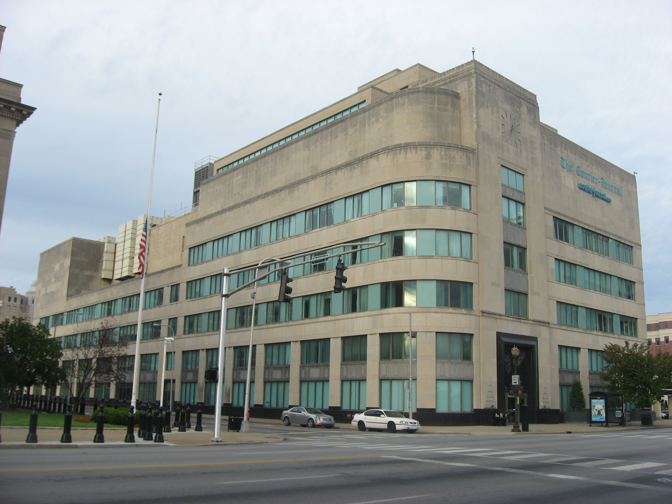 Front and western side of the headquarters of The Courier-Journal, located at 525 W. Broadway in downtown Louisville, Kentucky, United States. It was built in 1947 and has been recognised as a prominent example of Streamline Moderne architecture.